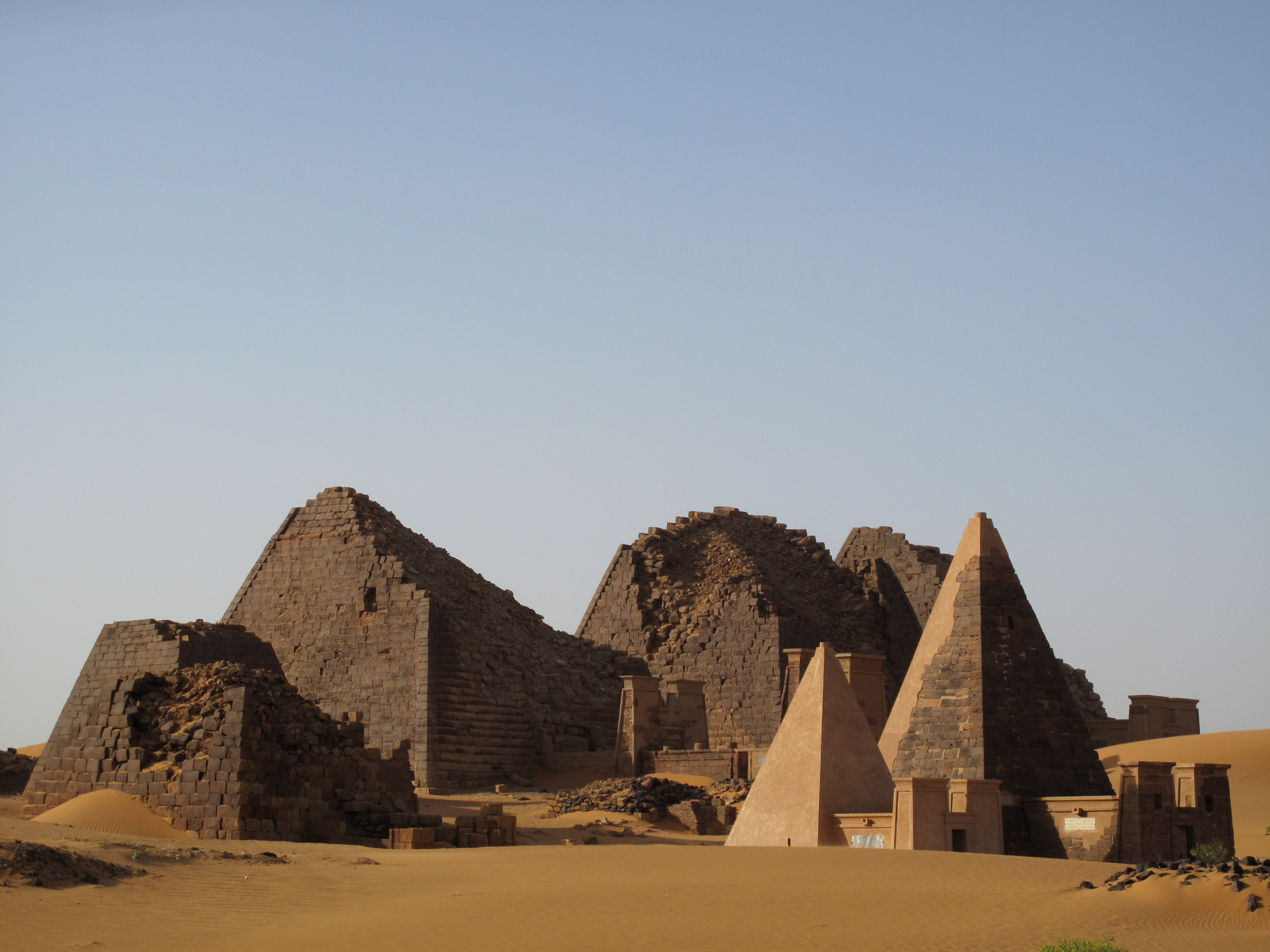 Pyramids of Meroe - Northern Cemetery - Archaeological Sites of the Island of Meroe (Sudan)